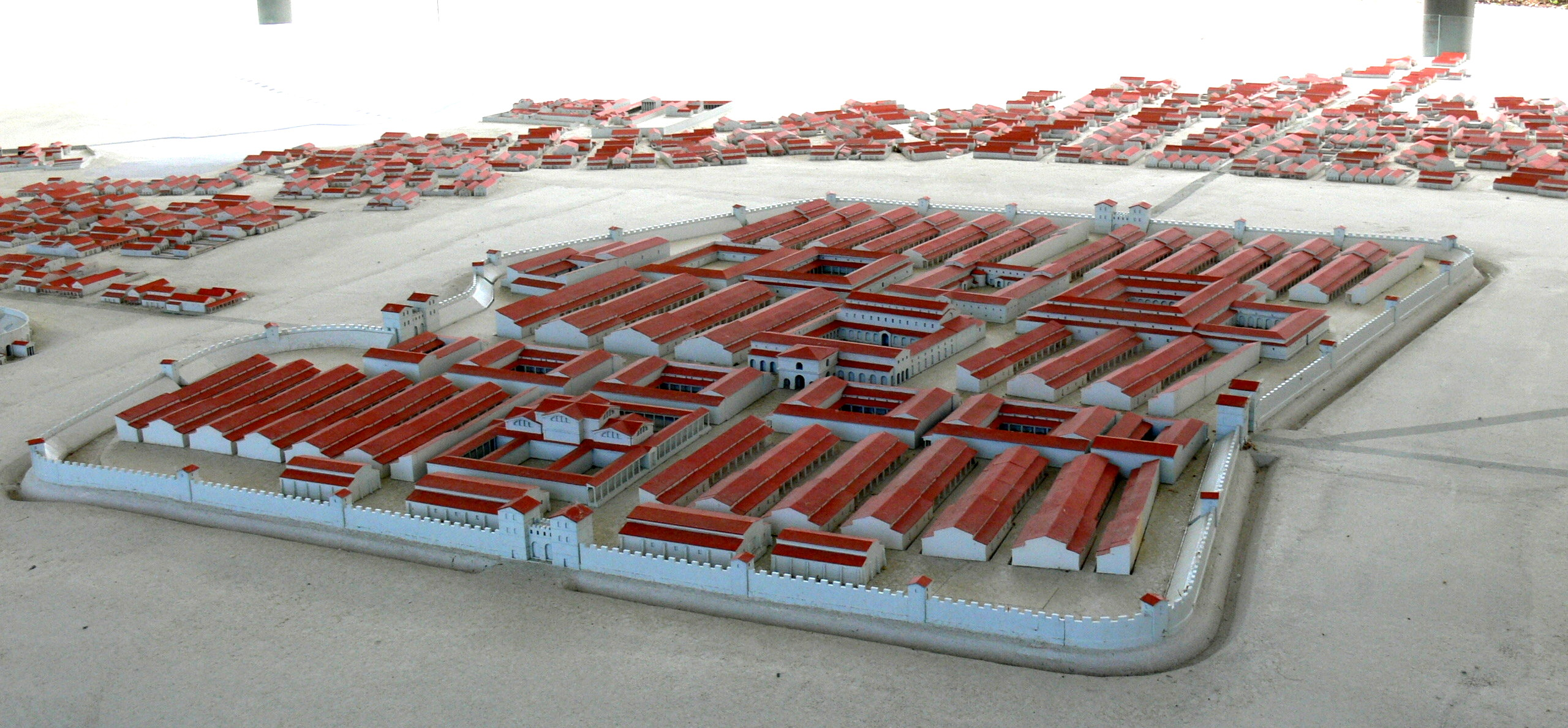 Petronell ( Lower Austria ).Open air museum: Model of Carnuntum ( 210 AD ) - Castra ( military encampment ) of an ancient Roman legion.